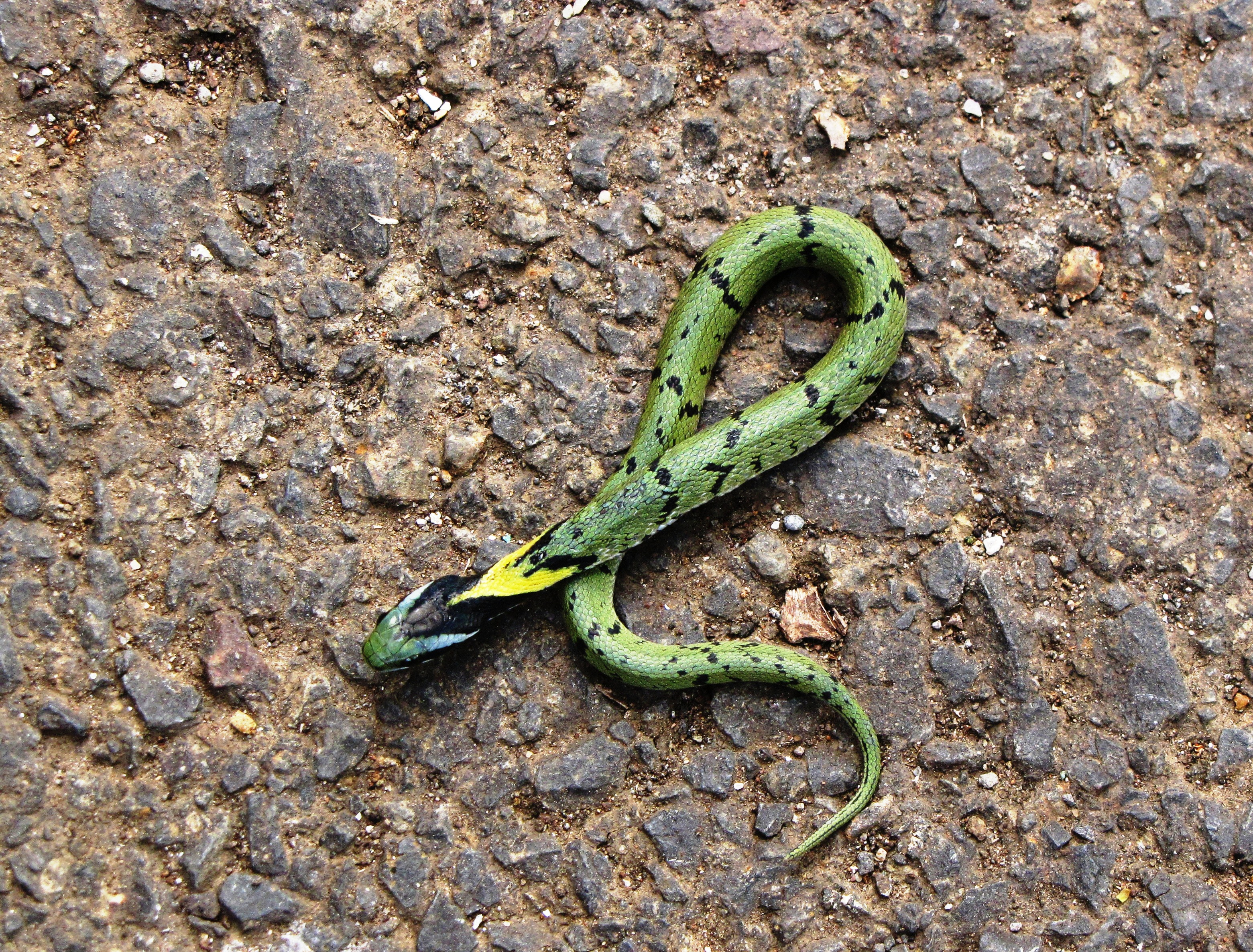 Juvenile Green Keelback, Macropisthodon plumbicolor, (family Colubridae ), seen in Pune, Maharashtra, India